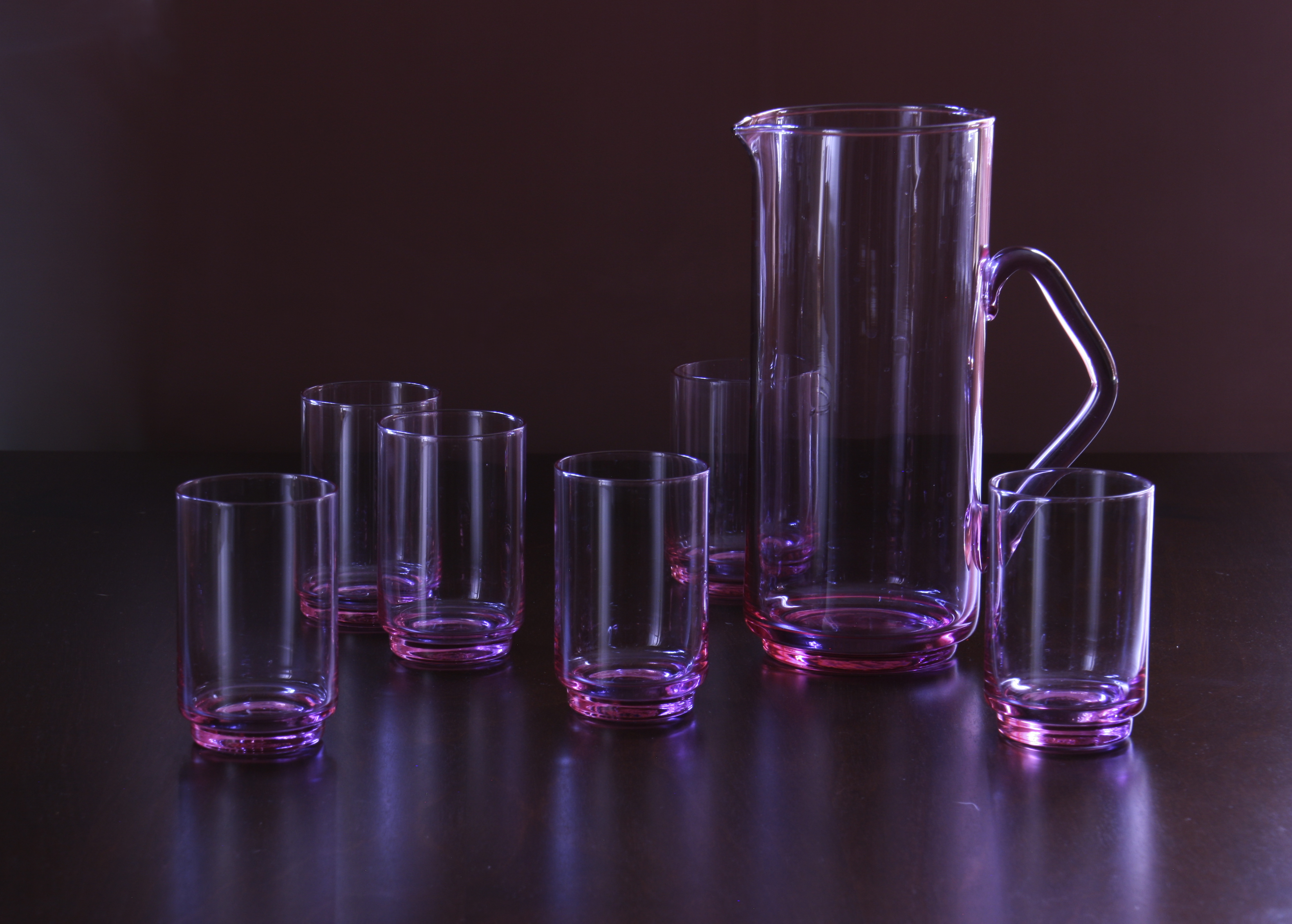 Tamara Aladin's Design Carafe (Ametist)